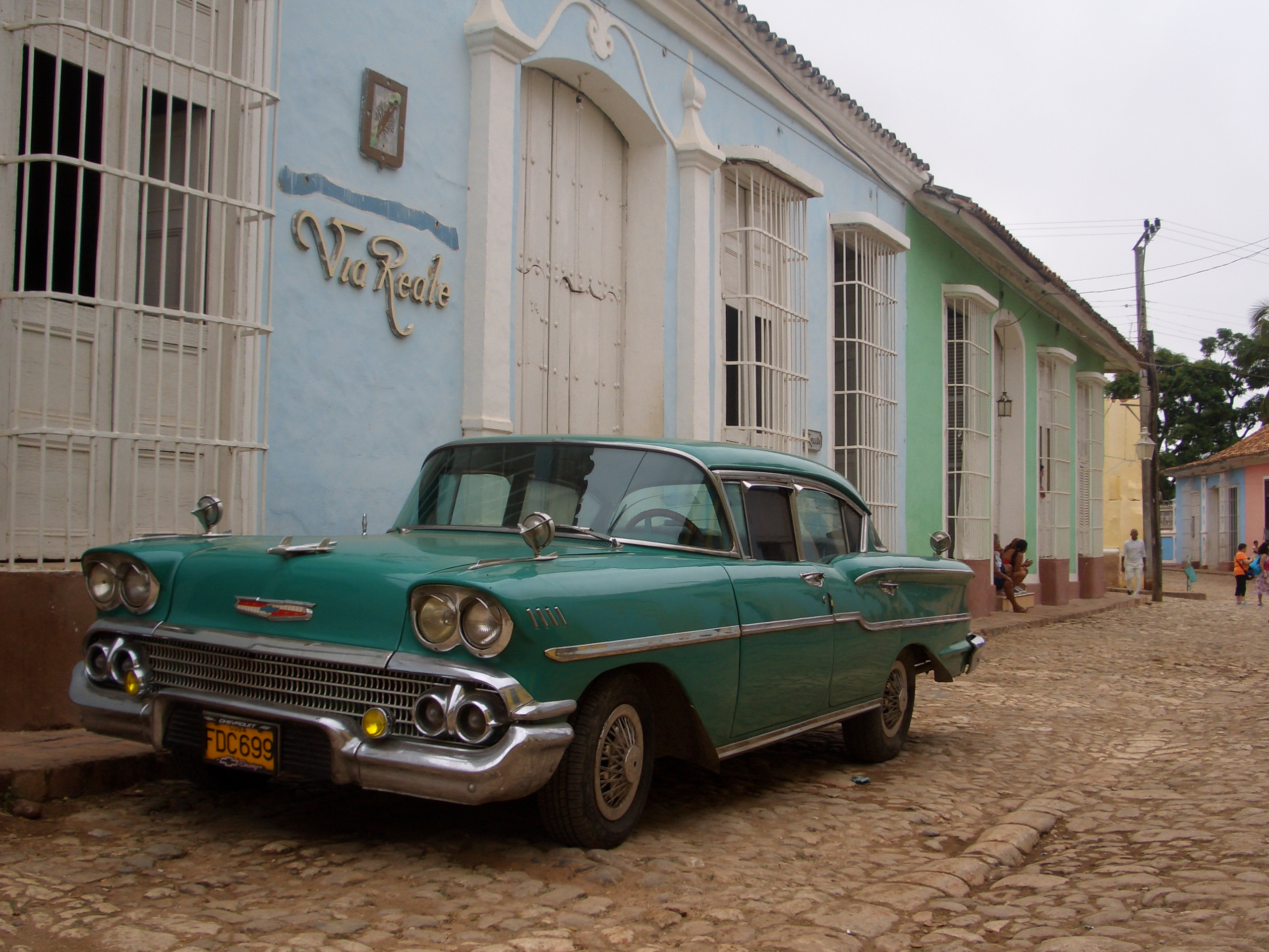 Picture of a 1958 Chevrolet Bel Air, Model 1749 4-door sedan, taken in Trinidad, Cuba